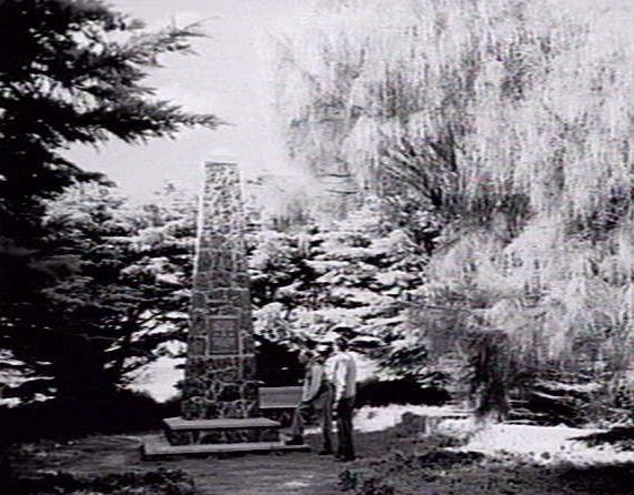 Pioneer Memorial, Indented Head picture